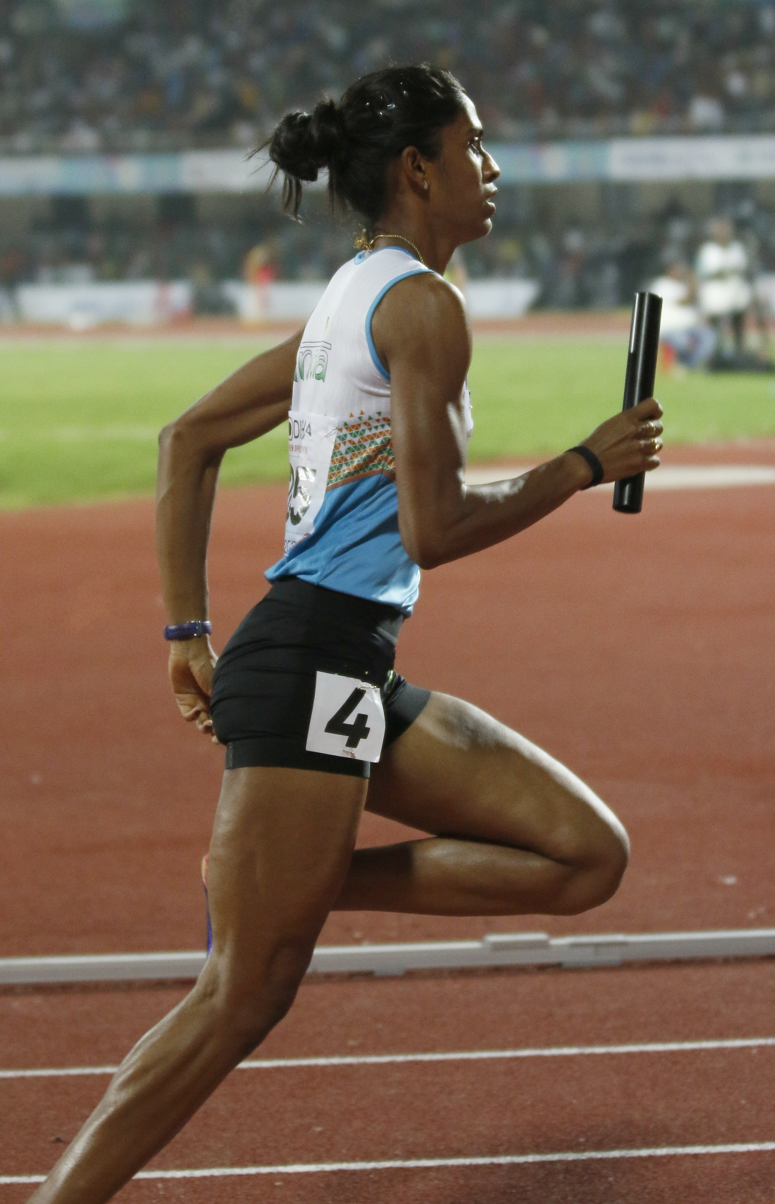 2017 Asian Athletics Championships at the Kalinga Stadium in Bhubaneswar, India